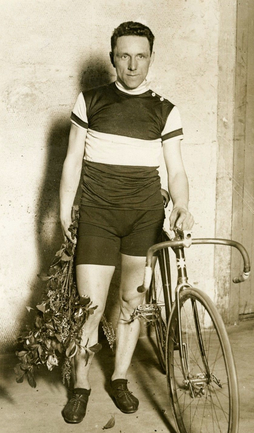 "Henry HANSEN (Copenhague 1931)" Photo originale G. DEVRED (Agce ROL)